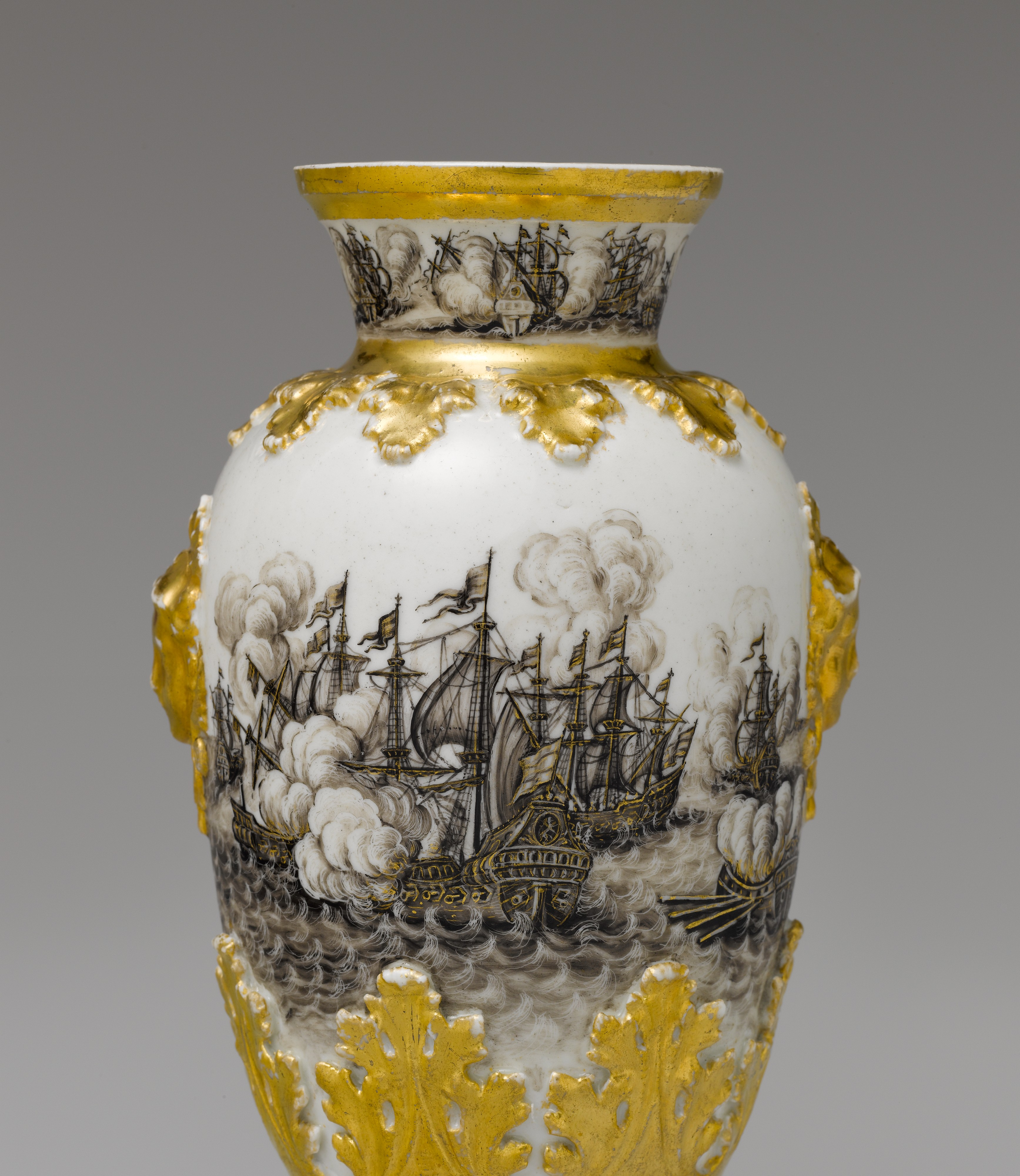 German, Meissen; Vase; Ceramics-Porcelain